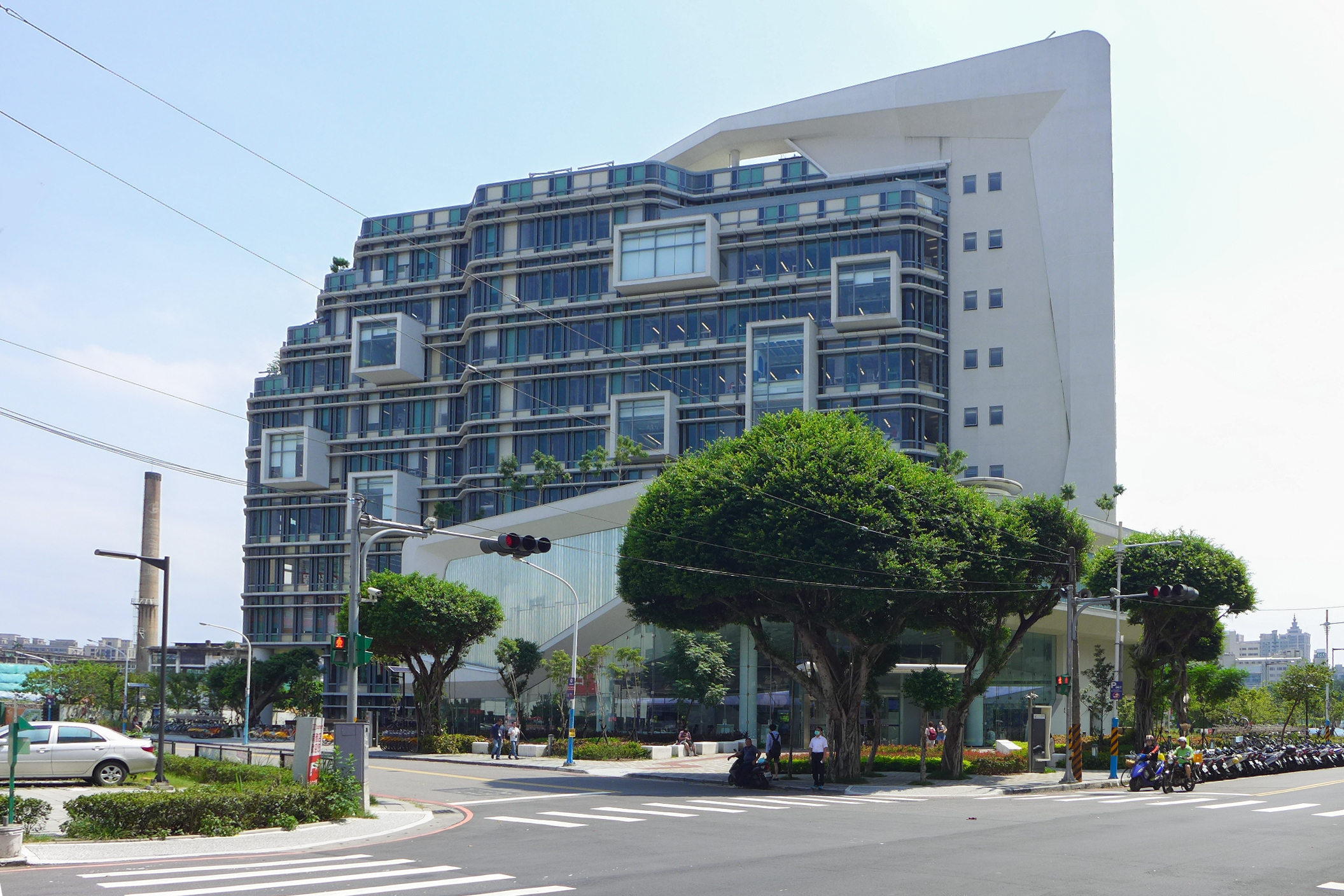 New Taipei City Main Library